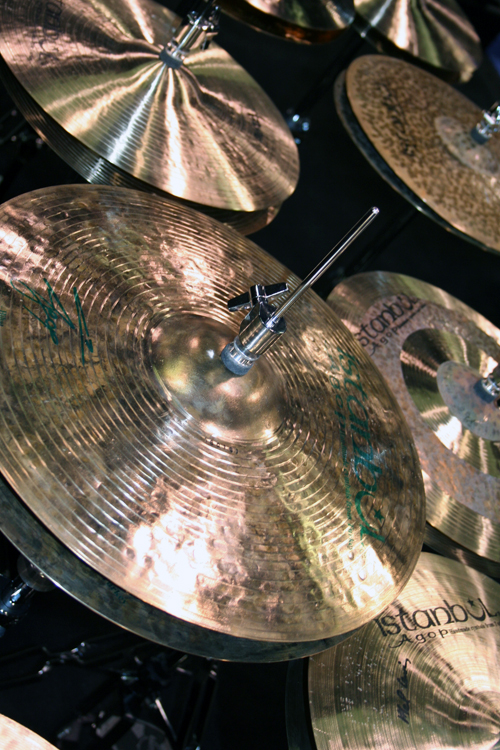 Hi-hat cymbals